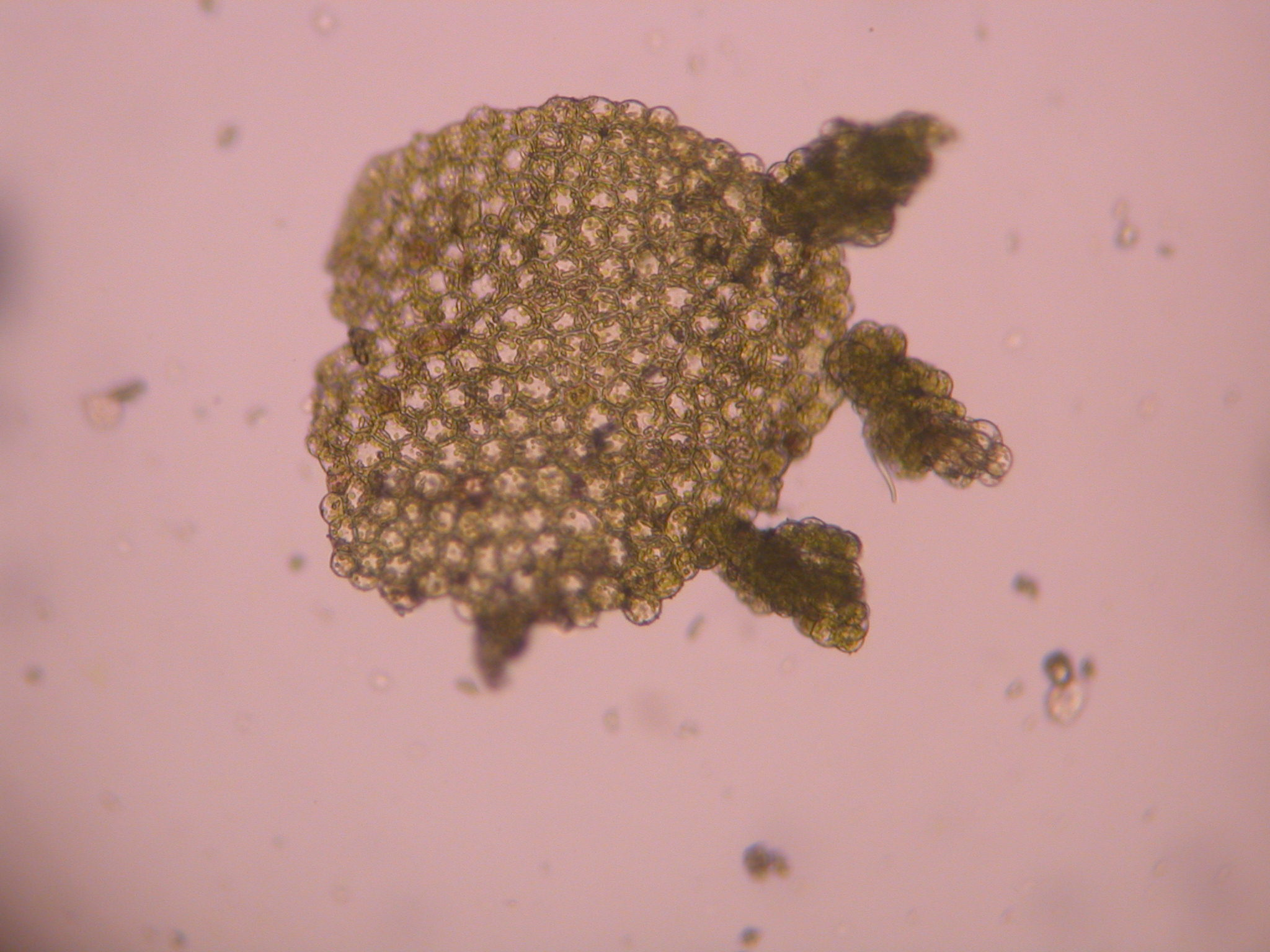 A caducuous phylloid of a liverwort germinating Taken by Micheal Sedman. Navy Shower room king